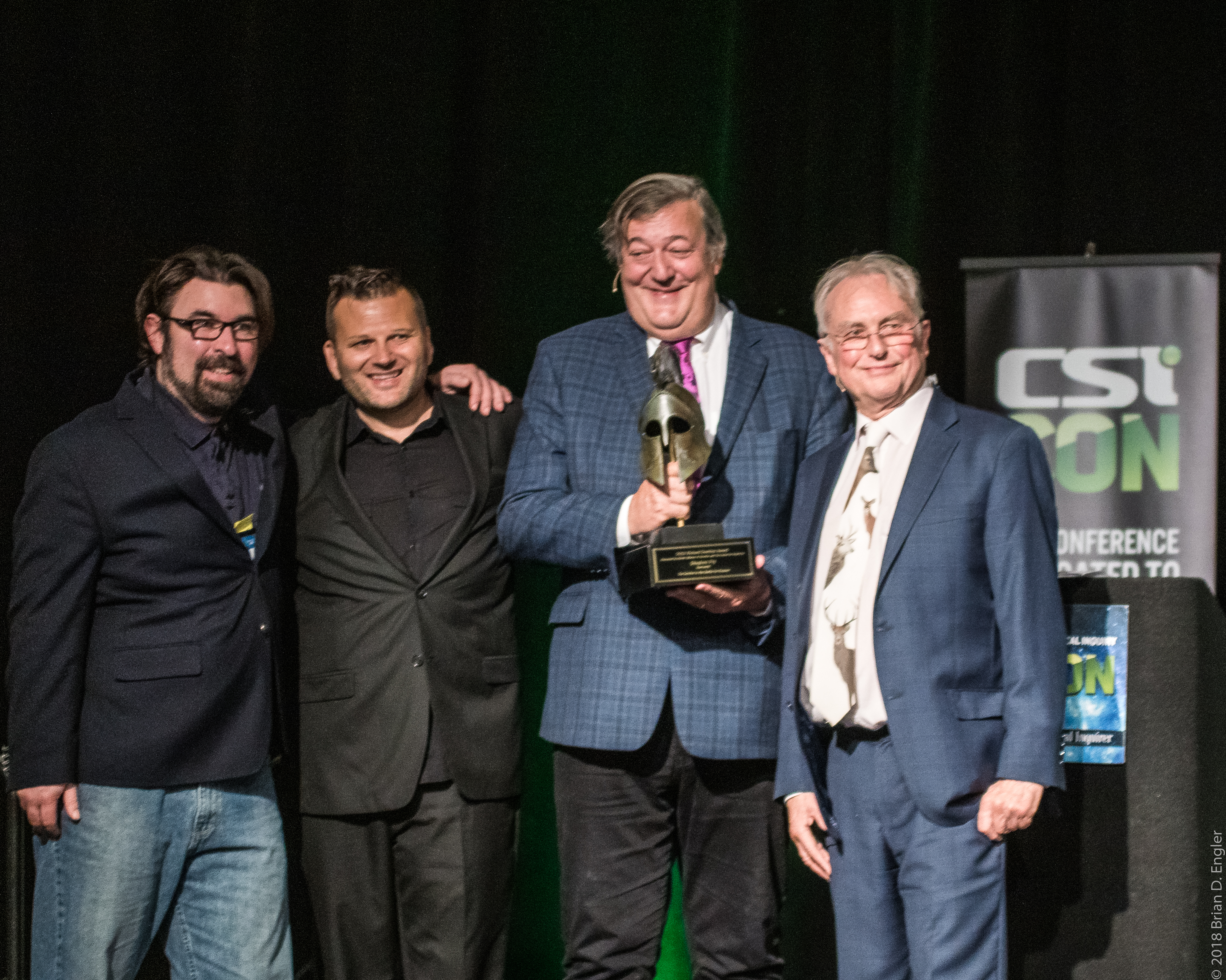 Atheist Alliance of America Executive Director CW Brown and President Mark Gura present the AAA Richard Dawkins Award for 2018 to Stephen Fry, with the assistance of Richard Dawkins at CSICon 2018 in Las Vegas.